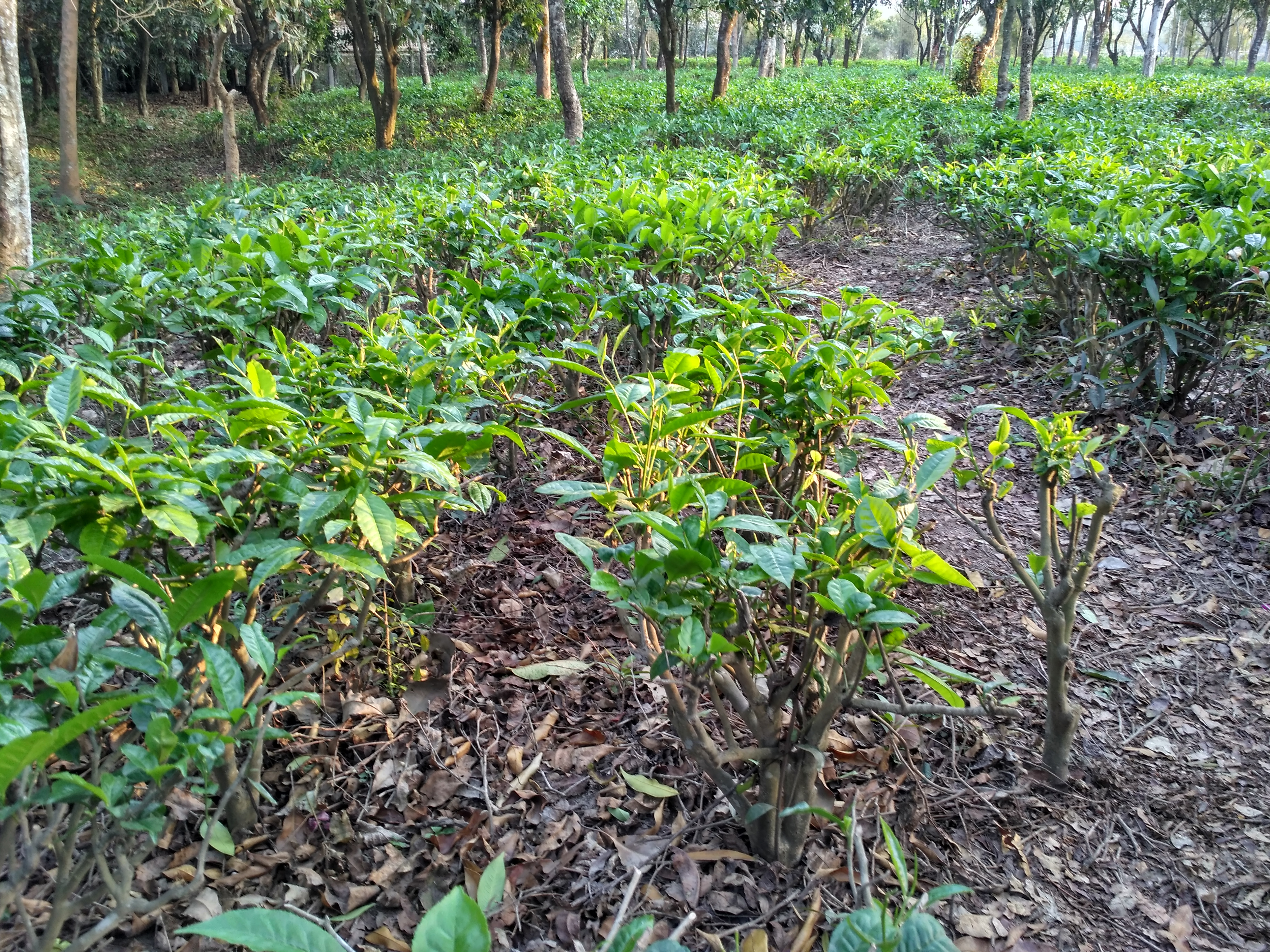 A tea garden at Tetulia Upazila, Panchagarh district, Bangladesh. (01.03.2019).